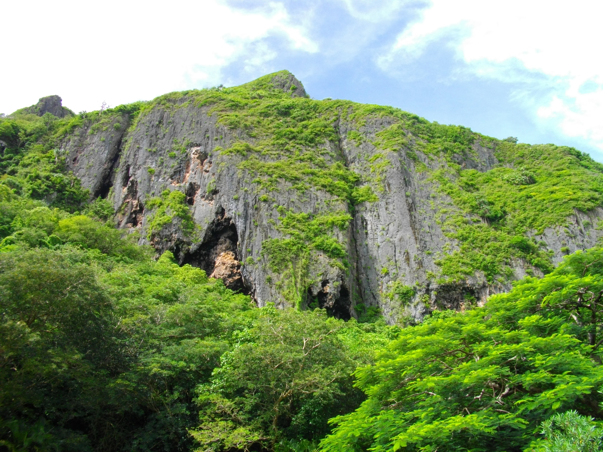 Suicide Cliff in Saipan